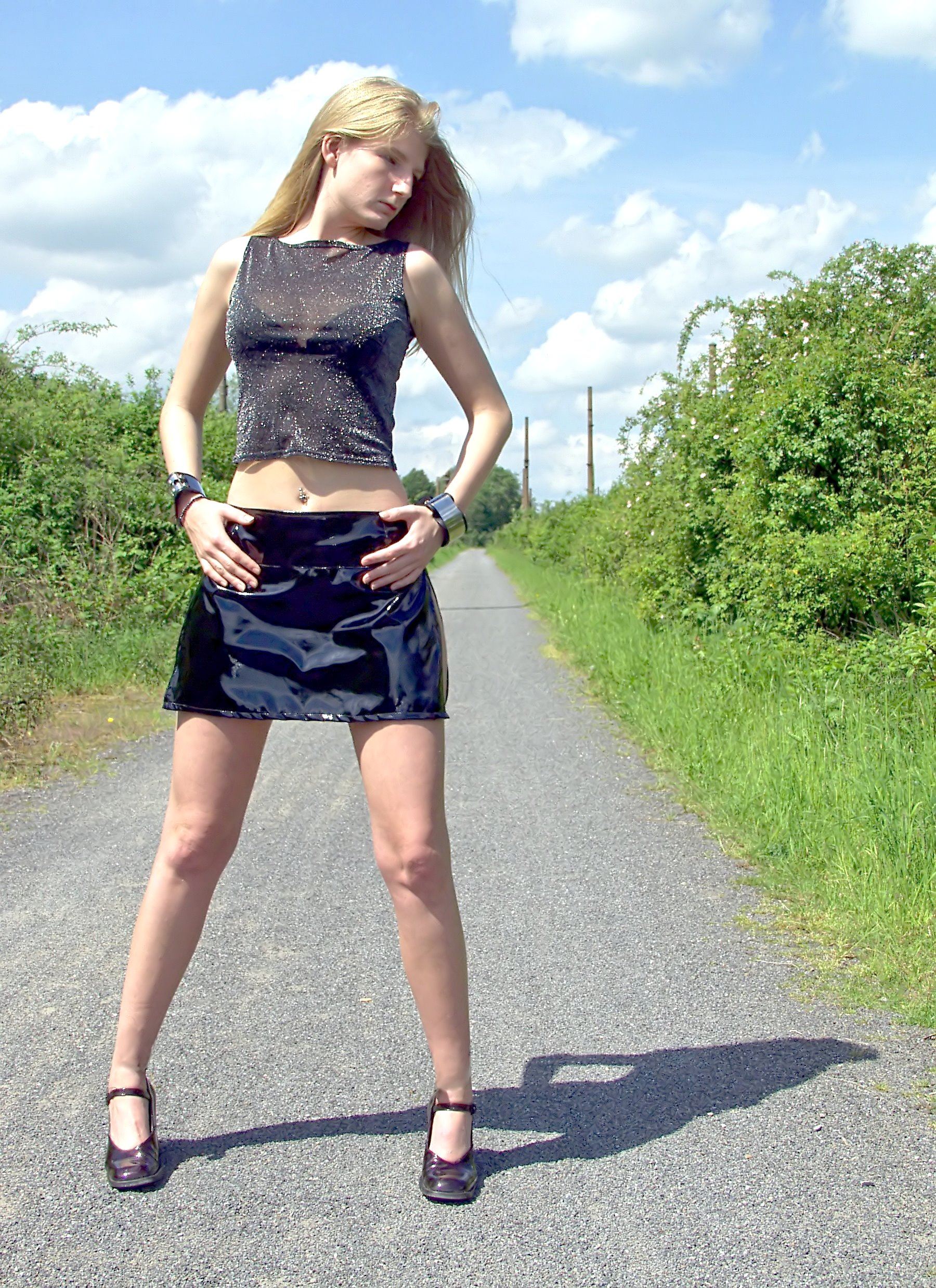 Fotomodel in a miniskirt at Landschaftspark Duisburg-Nord